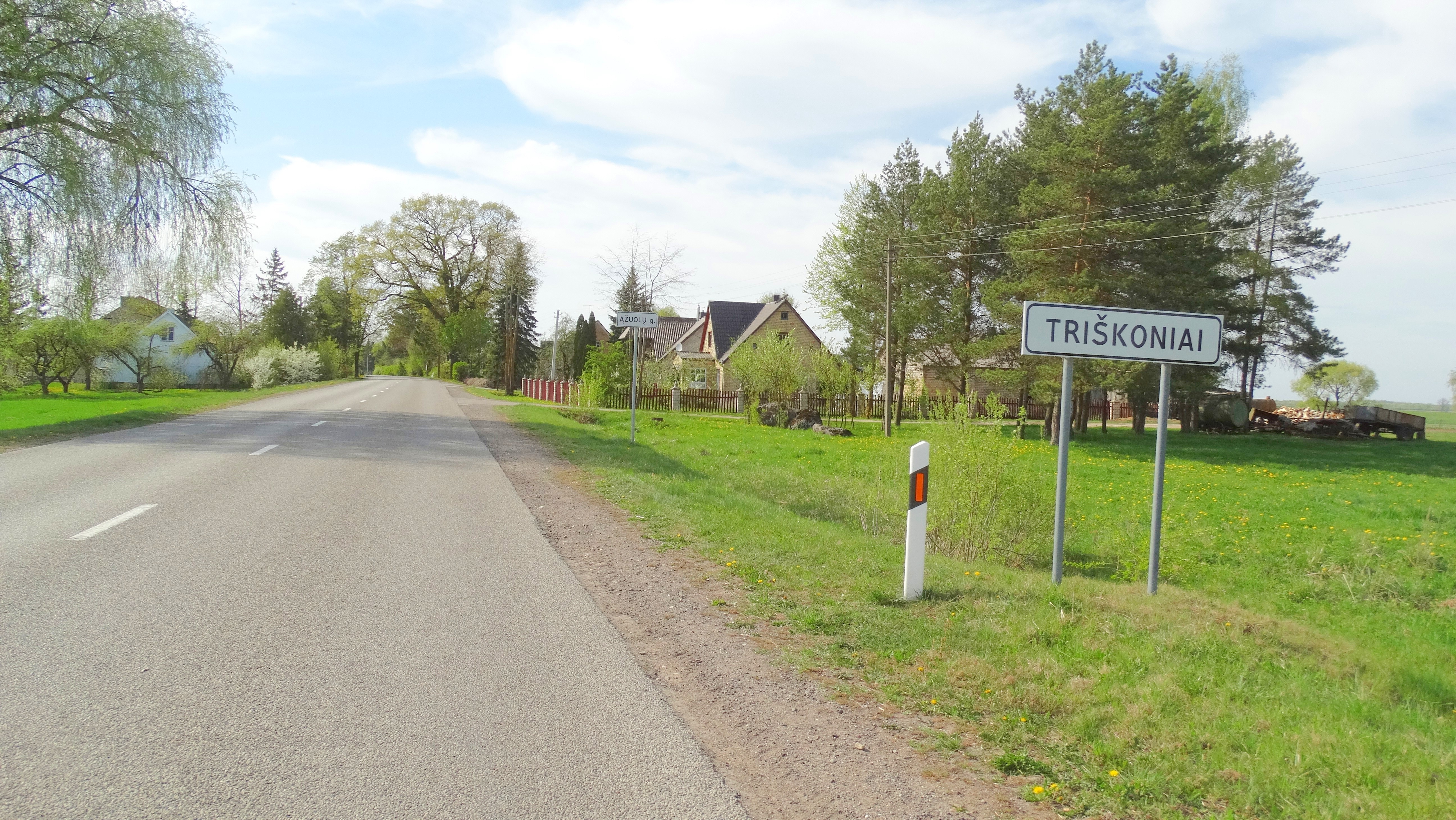 Triškoniai, Pakruojis district, Lithuania